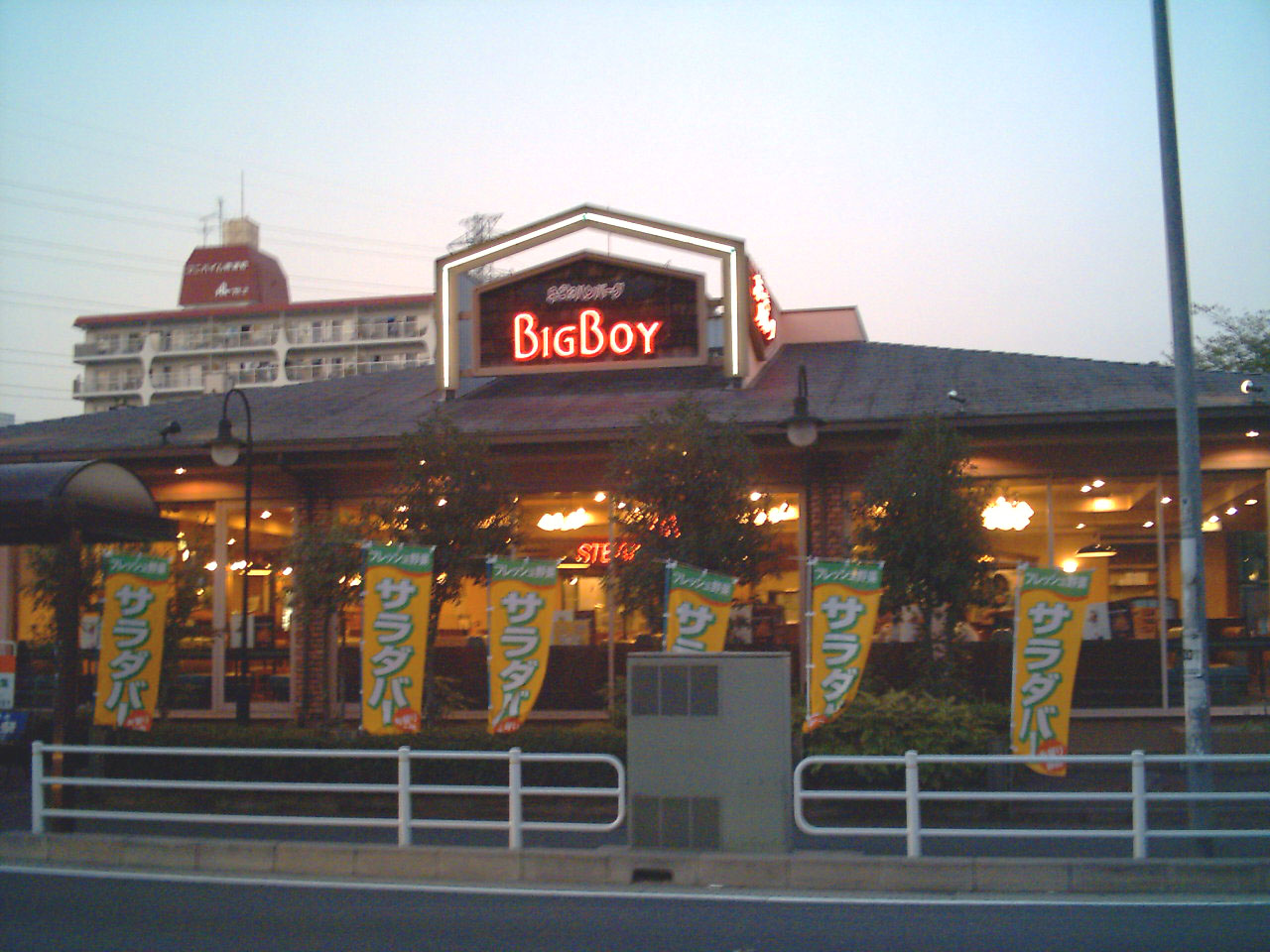 Big Boy restaurant in Warabi, Saitama, Japan